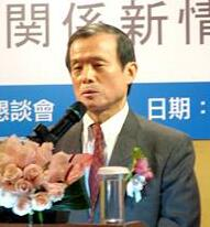 Masaki Saito